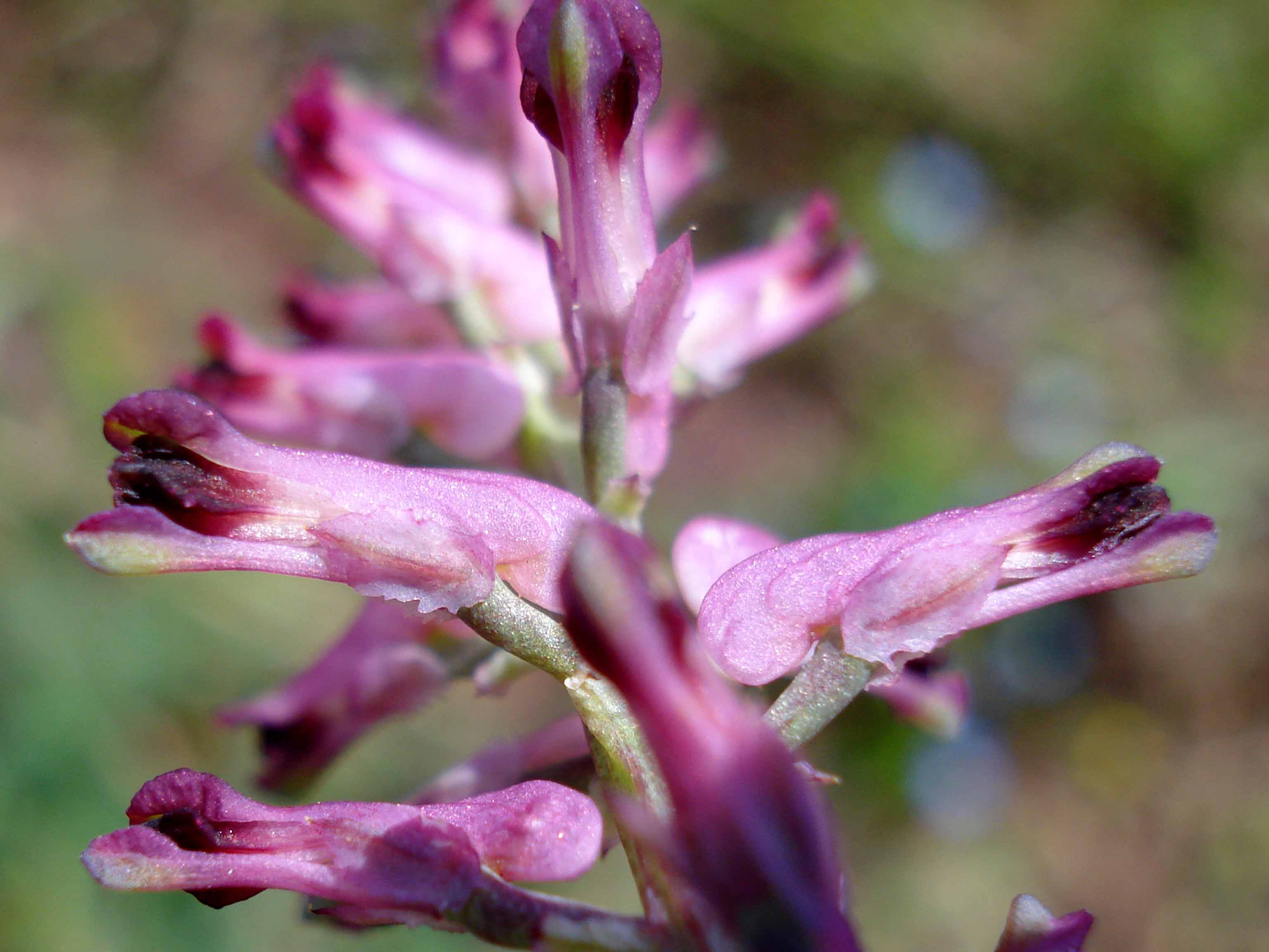 Fumaria officinalis (Unterfranken, Germany)